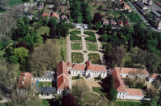 Palace - Nagycenk - Hungary - Europeai Stúdió